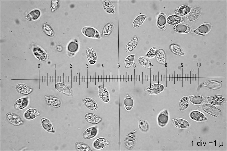 spores of Clavariadelphus truncatus from Zadnjica Valley, lower Stružnik place, East Julian Alps, Posočje, Slovenia seen through light microscope (Motic B1-211A Monocular Microscope), magnification 1.000×, oil, in water, taken with camera model Nikon D700 / Nikkor Micro 105mm/f2.8